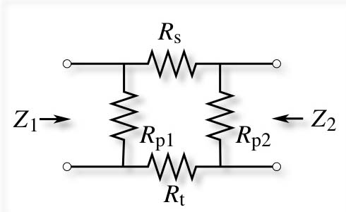 Pi type balanced attenuator circuit